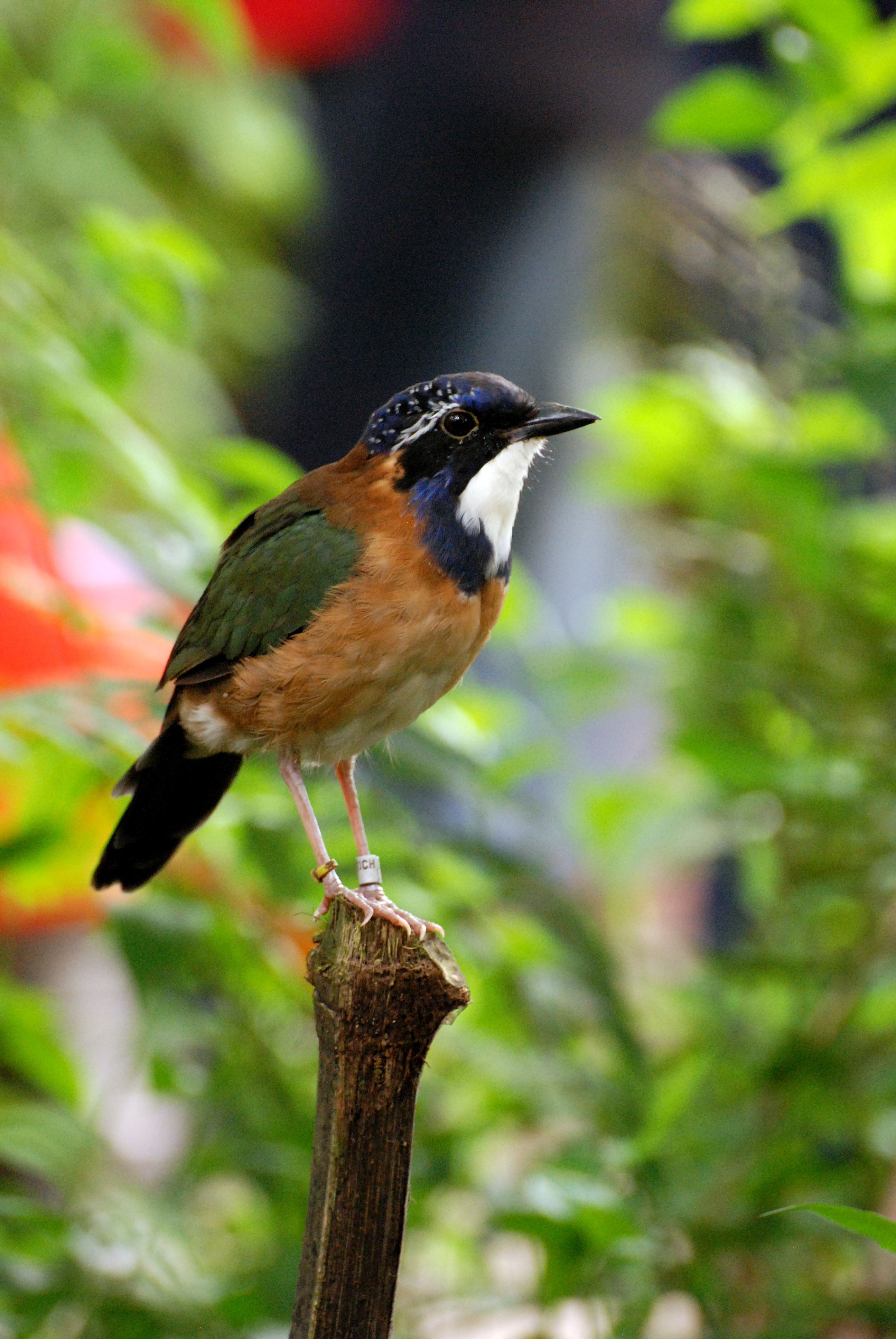 Pita-like Ground-roller at Zürich Zoologischer Garten, Switzerland.